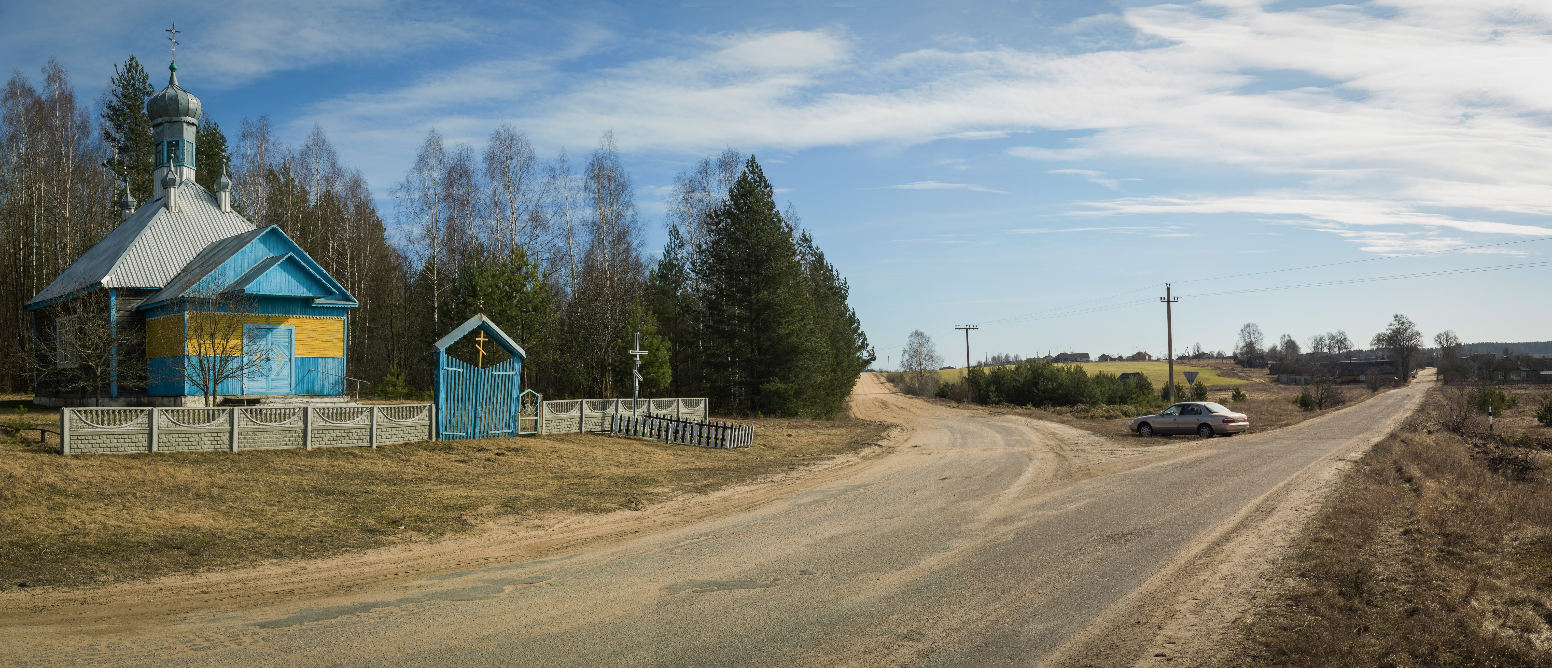 Church of the Transfiguration in Zabalatse